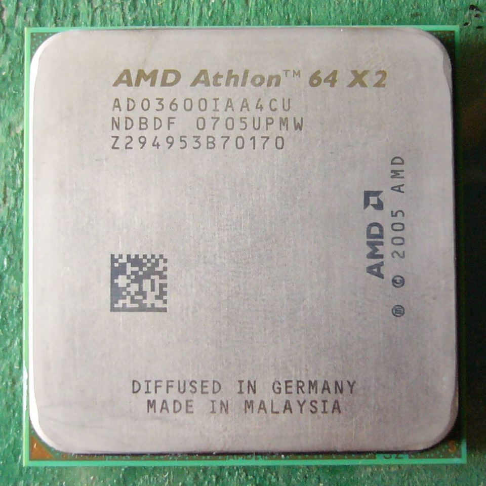 AMD Athlon 64 X2 3600+ microprocessor